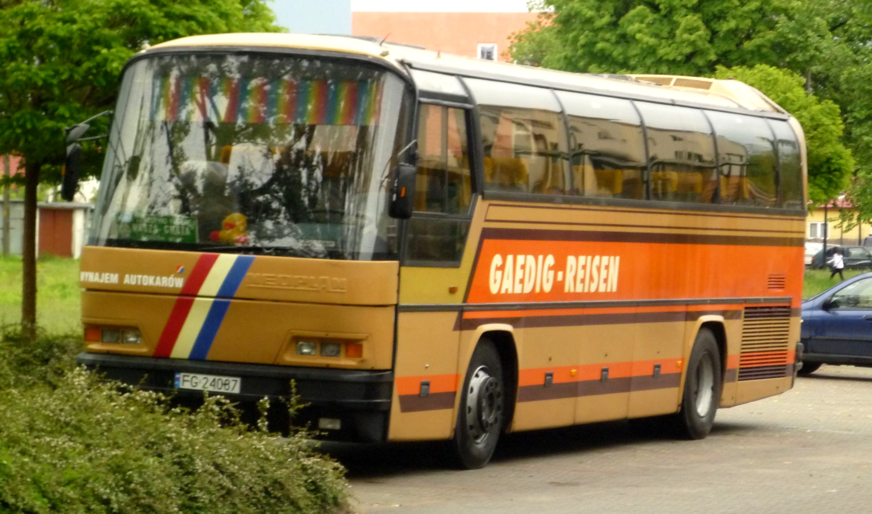 Neoplan N214 H Jetliner bus (reg. FG 24087) in Słubice, Poland. Gaedig-Reisen Pleszew operator.